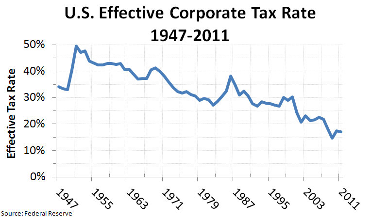 U.S. effective corporate tax rates, 1947–2012